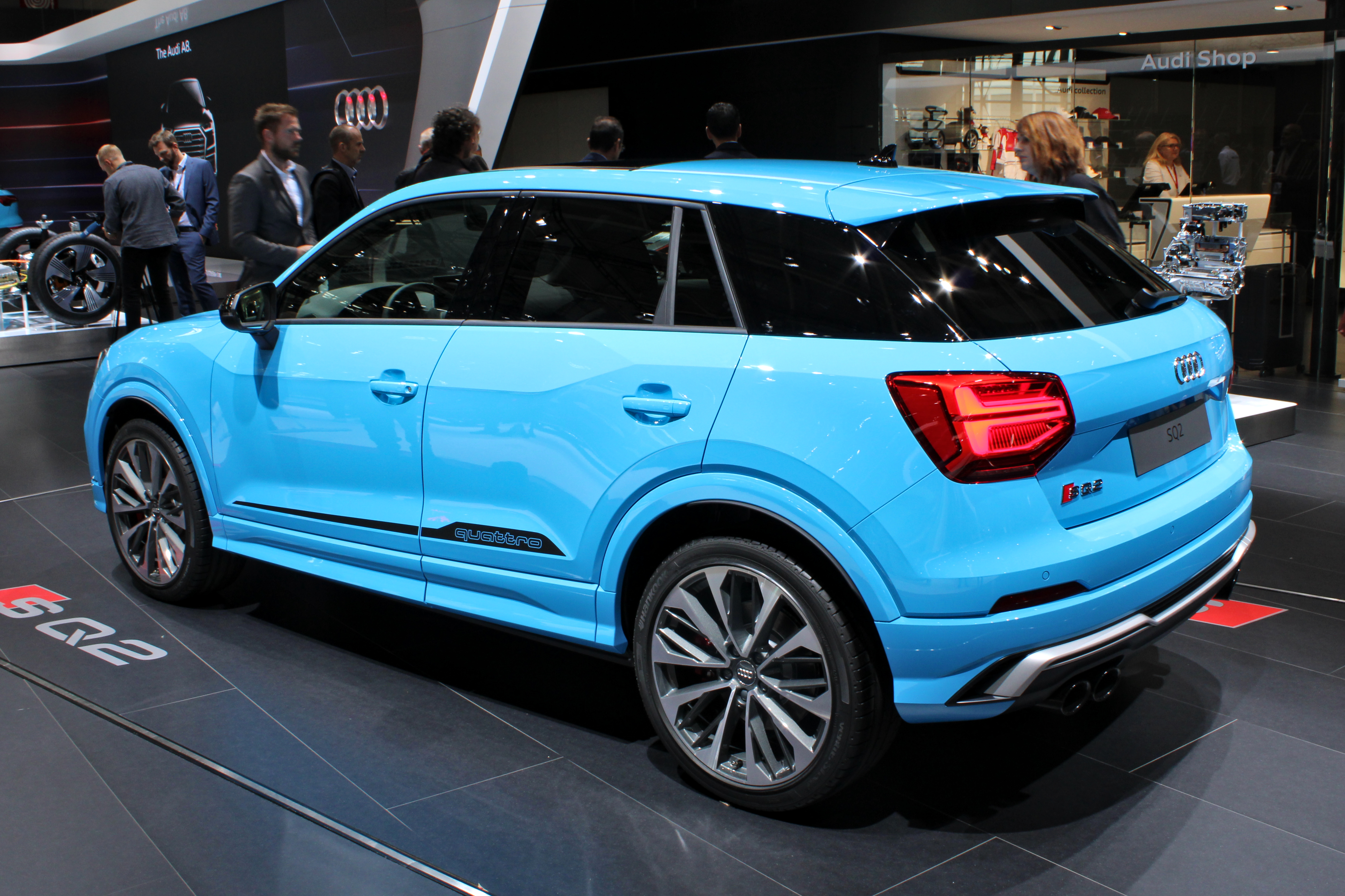 Audi SQ2 at Paris Motor Show 2018